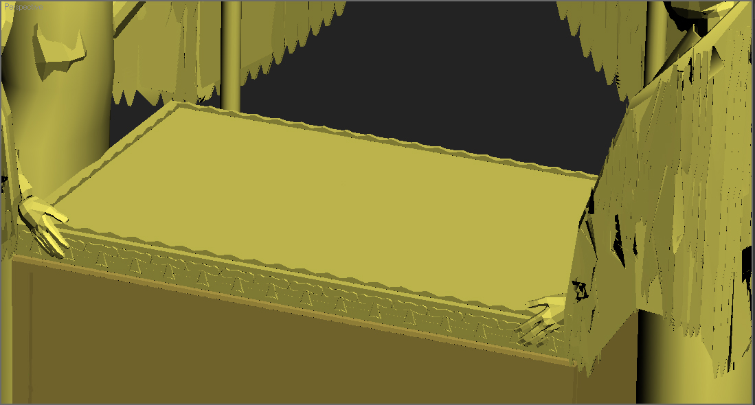 Garland detail of the lid.